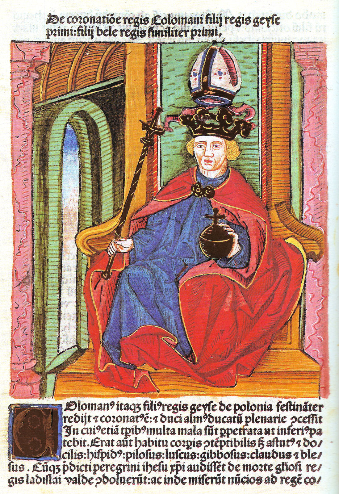 Hungarian king Coloman I 'the Book-lover' as depicted in Chronica Hungarorum authored by János Thuróczy (1488)